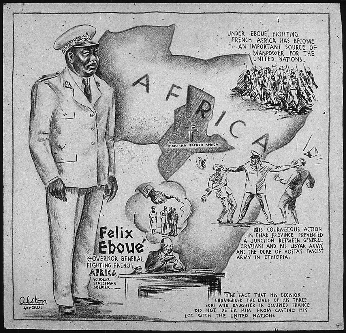 Felix Eboue cartoon drawn by Charles Alston in 1943 source